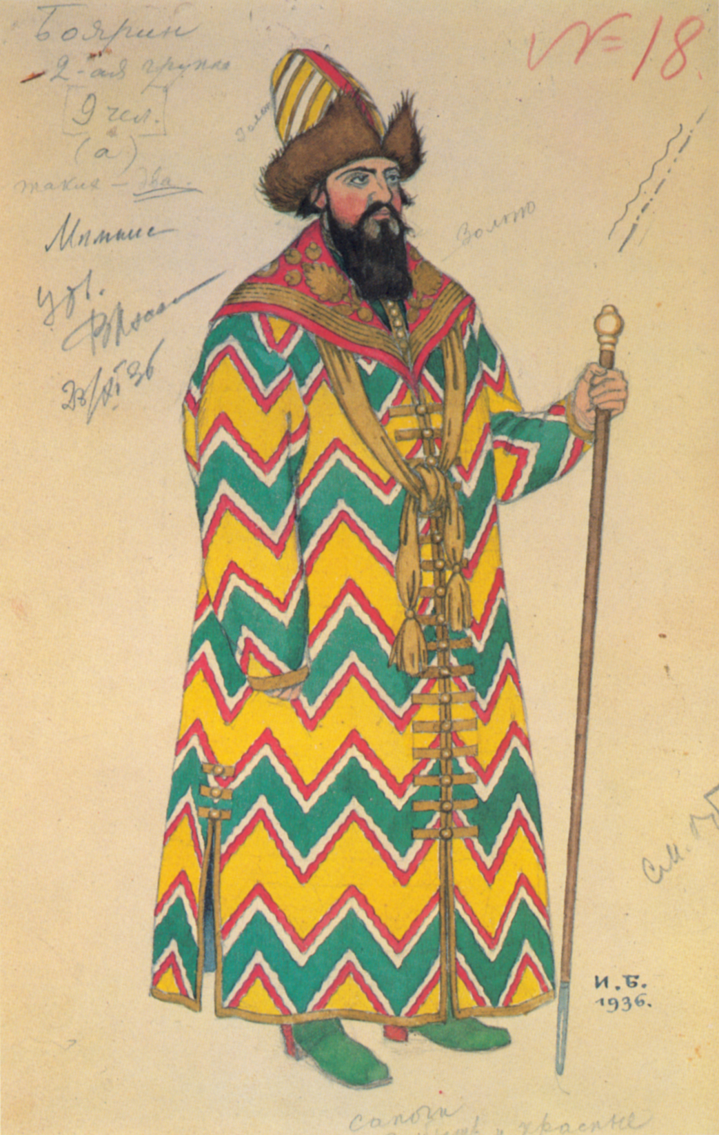 THE BOYAR. Costume design for the opera "The Tale of Tsar Saltan" by Rimsky-Korsakov. 1936